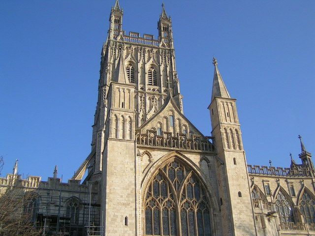 Gloucester Cathedral